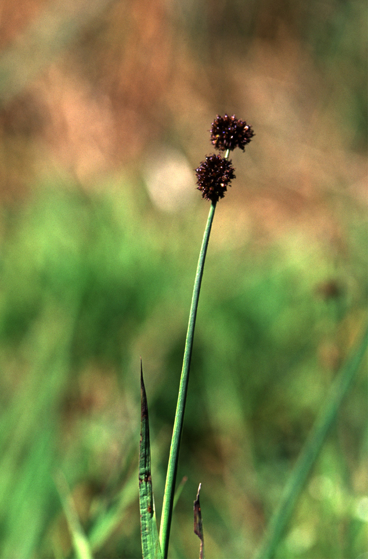 Juncus ensifolius at Humboldt Bay National Wildlife Refuge Complex, California, USA